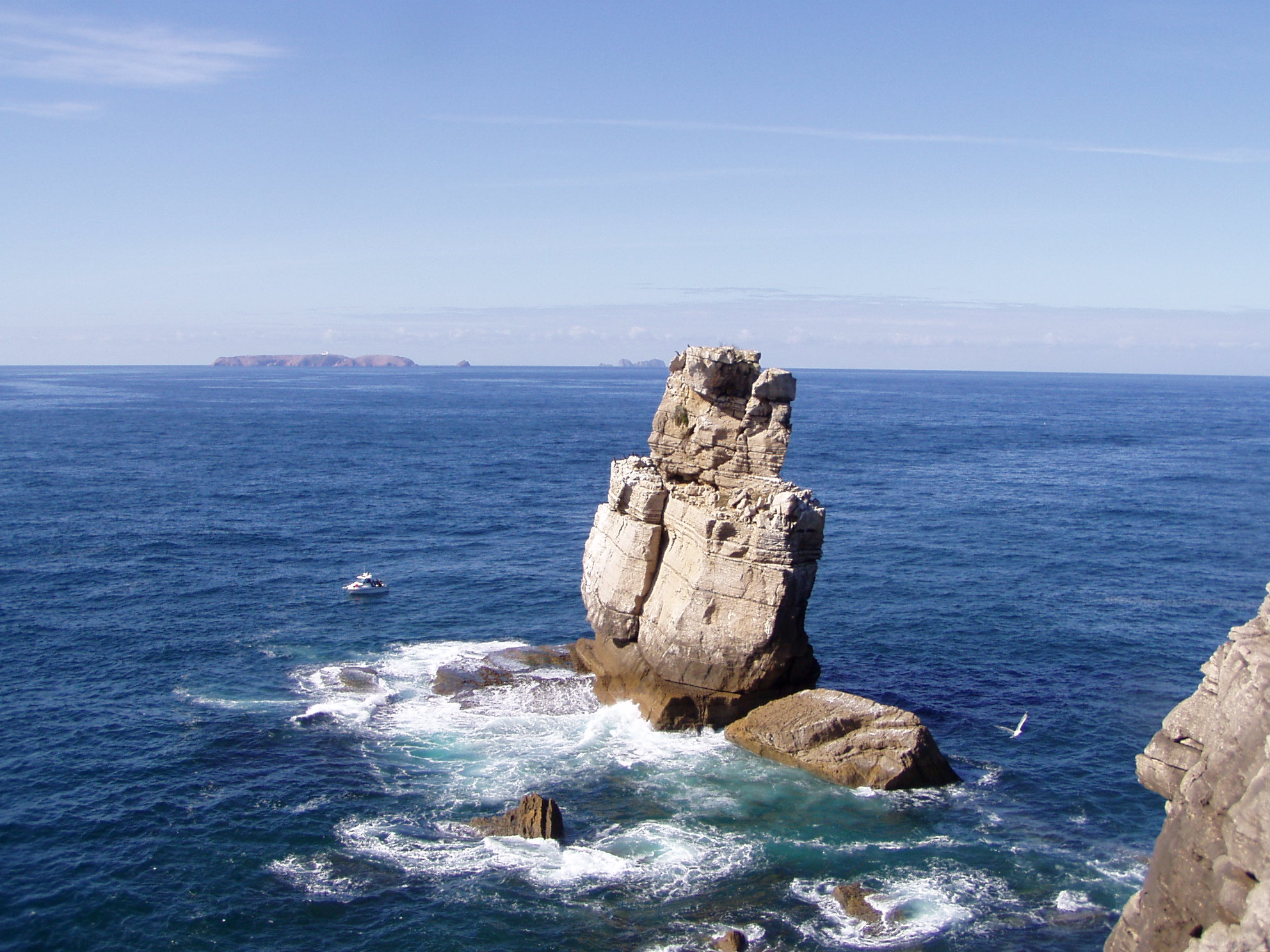 Nau dos Corvos, off Cabo Carvoeiro, is a prime spot for Shag Phalacrocorax aristotelis. Berlenga Grande and Farilhões islands further off shore. Peniche, Portugal.